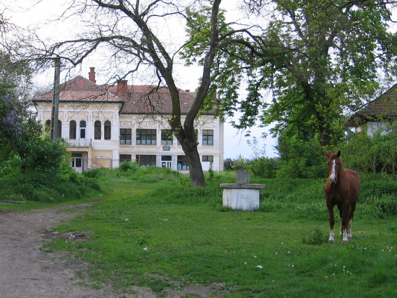 the former mansion of the Kemény family in Jucu de Sus (Felsőzsuk), Cluj County, Romania